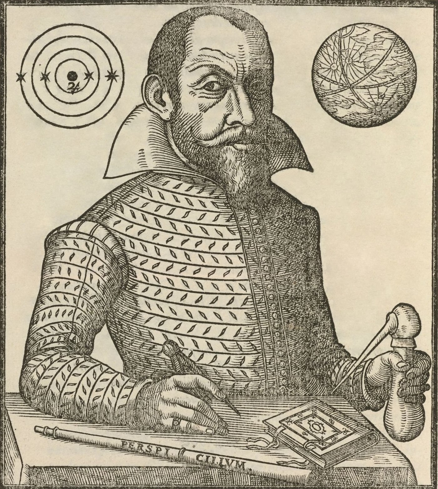 Engraved image of Simon Marius (1573-1624), from his book Mundus Iovialis, 1614. Cropped version. *GC6 M4552 614m, Houghton Library, Harvard University